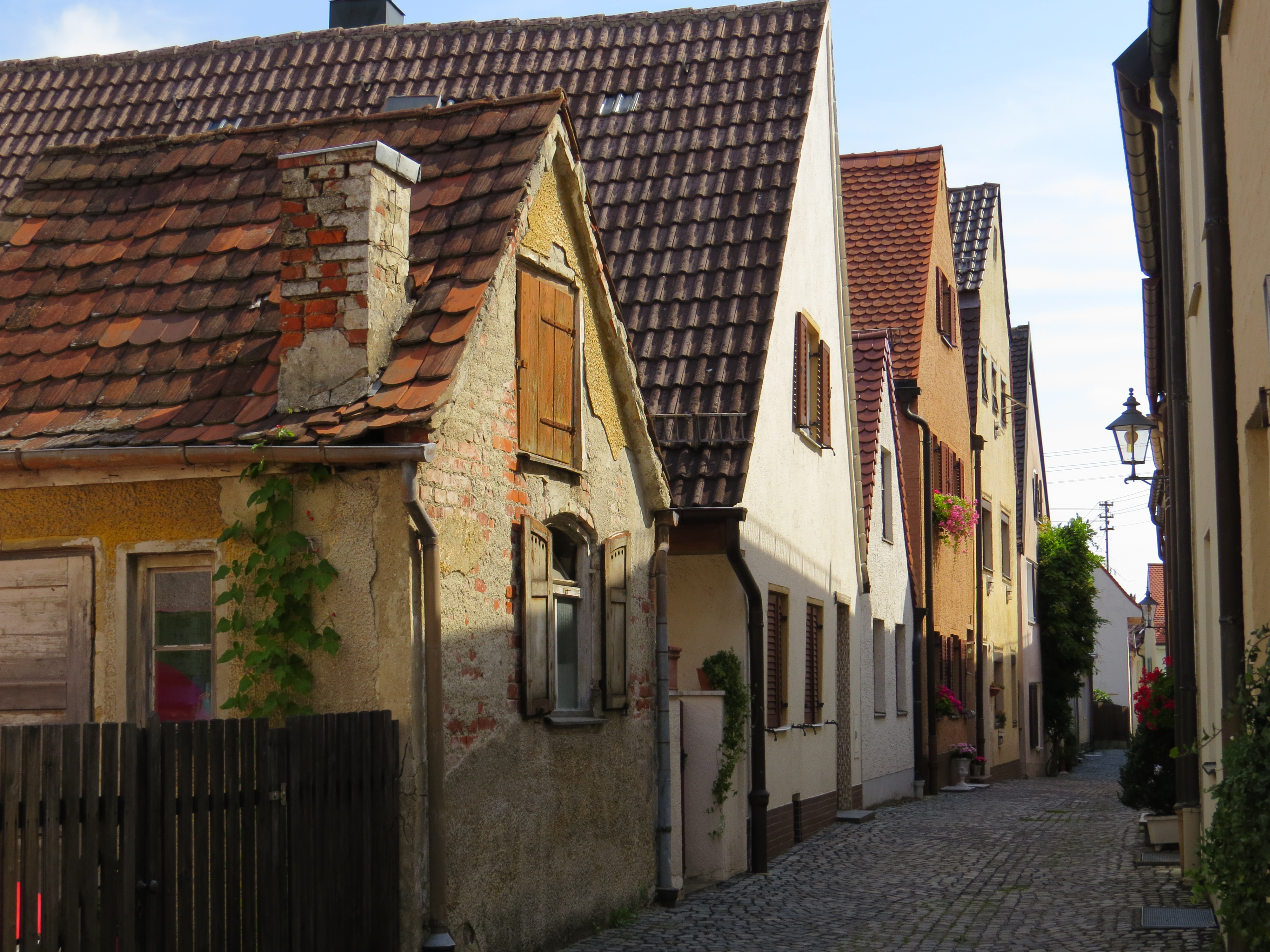 An der Stadtmauer in Friedberg